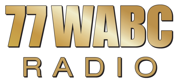 logo of 77 WABC (New York City): golden version used since 2011